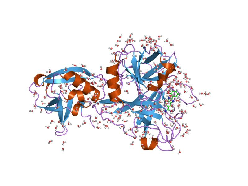 Cartoon representation of the molecular structure of protein registered with 1p57 code.